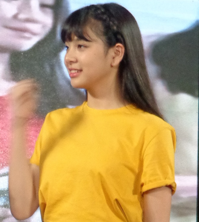 Azizi Shafaa Asadel during JKT48 Saka Agari HSF Surabaya